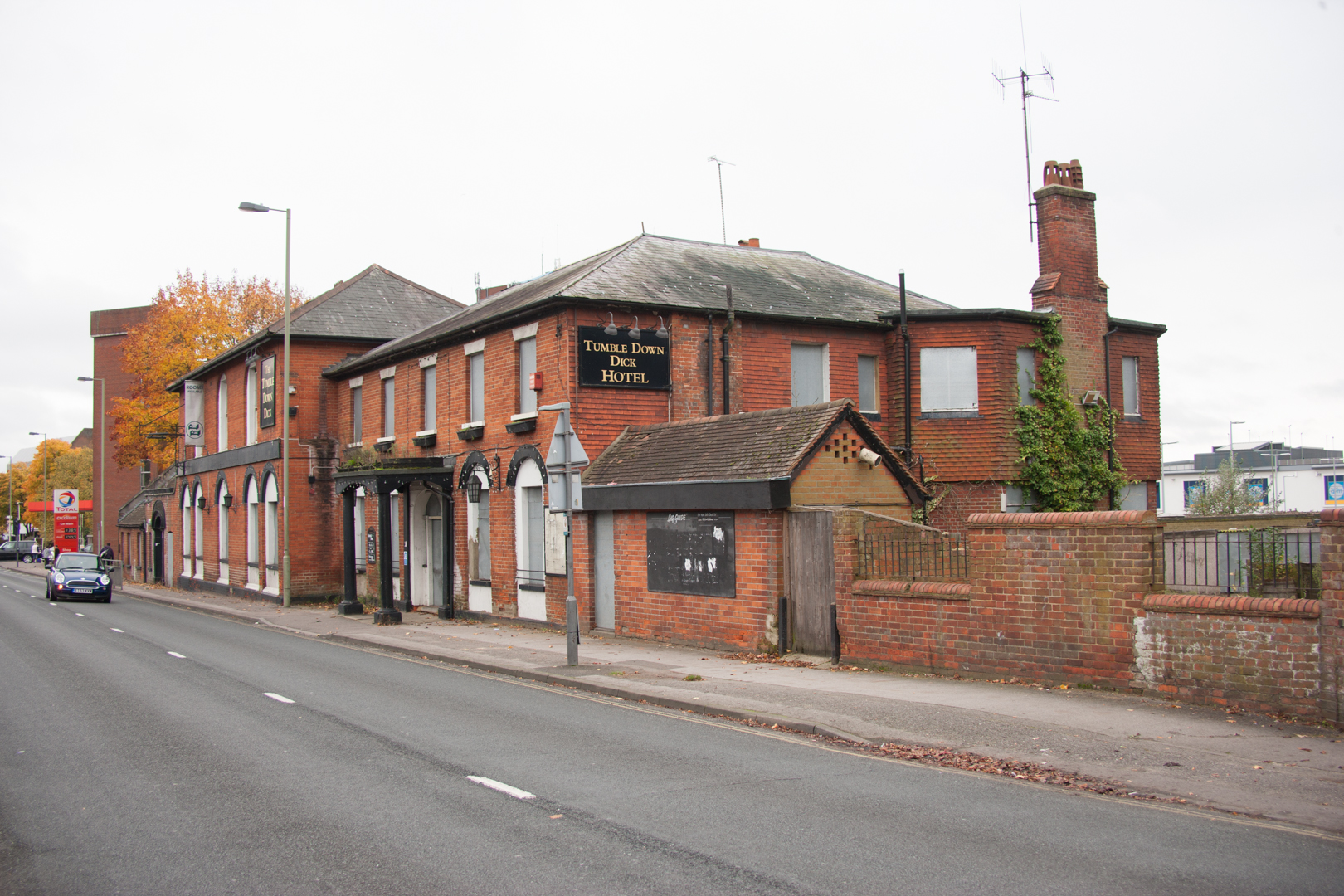 The Tumbledown Dick, one of the oldest buildings in Farnborough